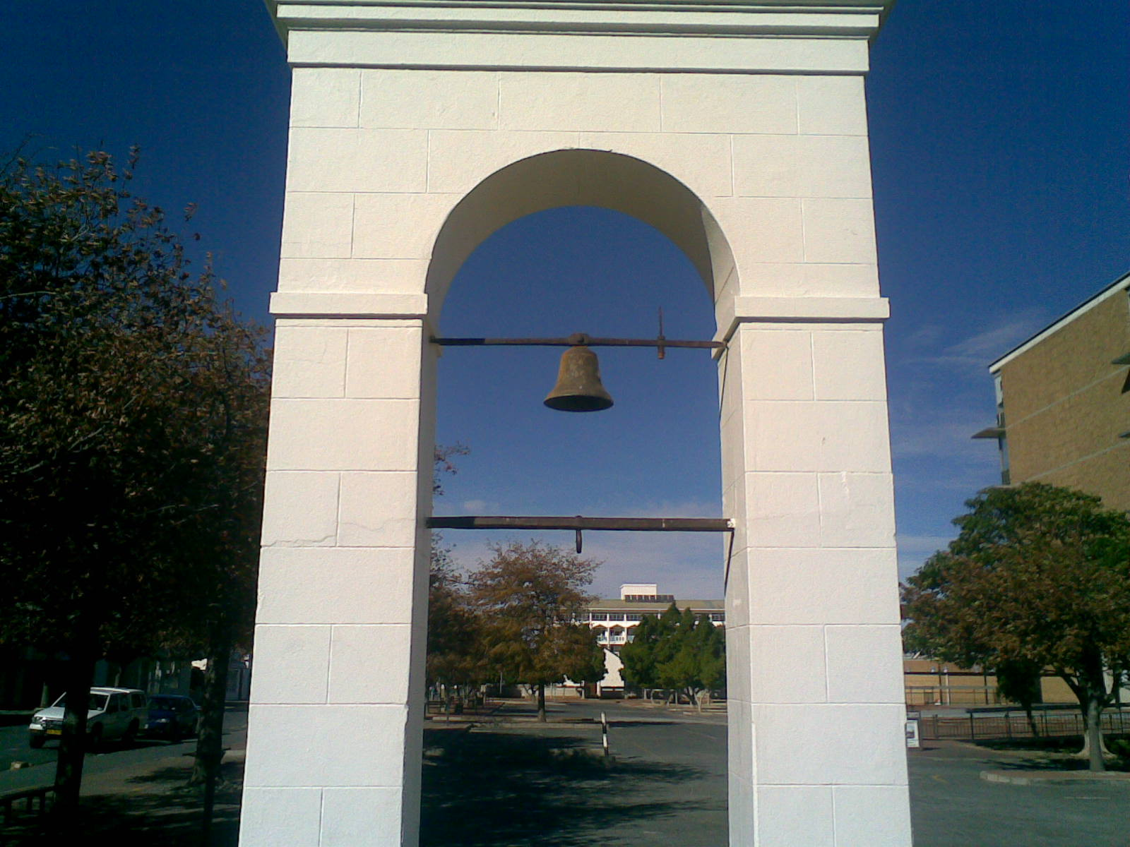 Slave bell over Market Square, Worcester, Western Cape, South Africa